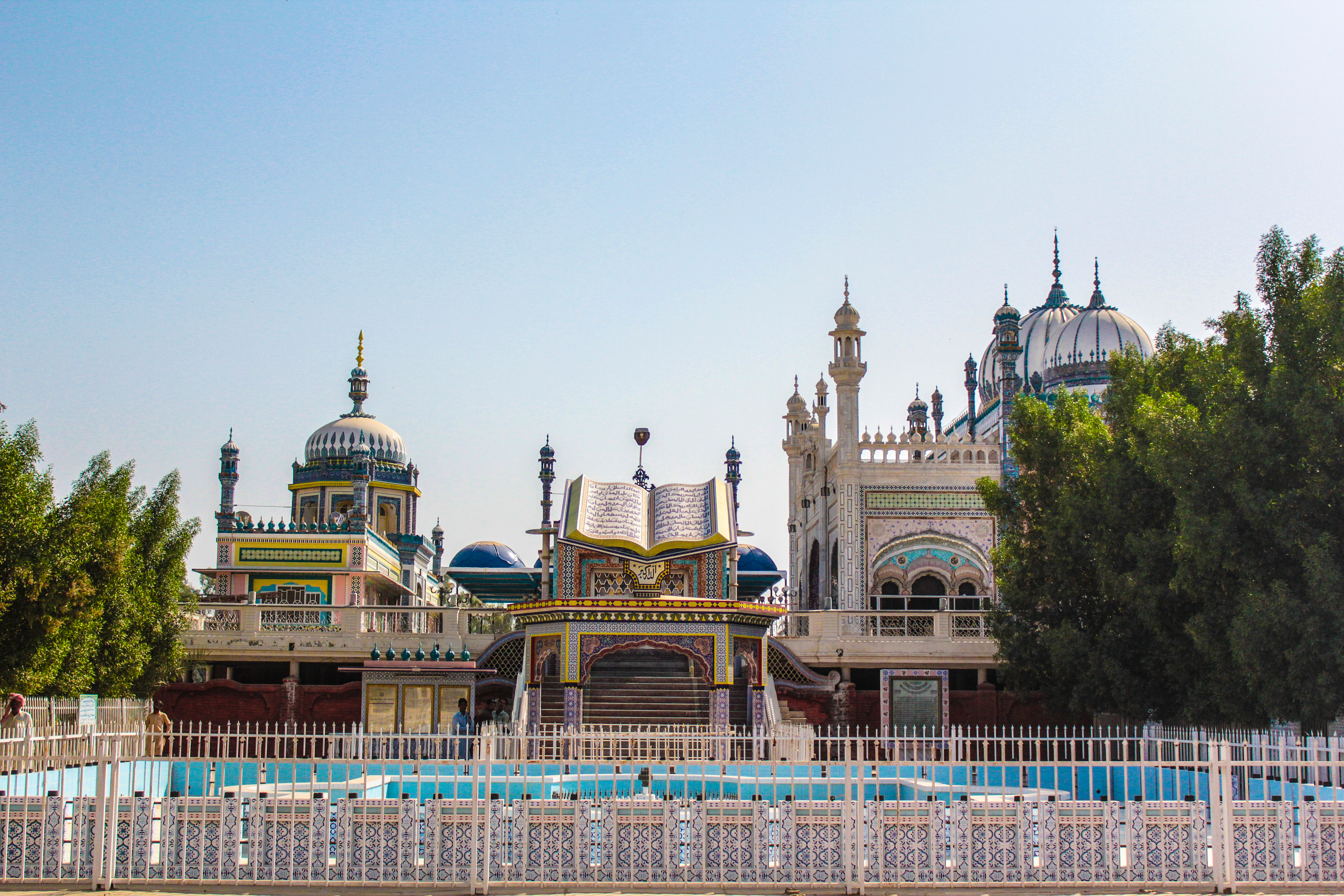 Bhong Mosque This is a photo of a monument in Pakistan identified as the PB-P-194